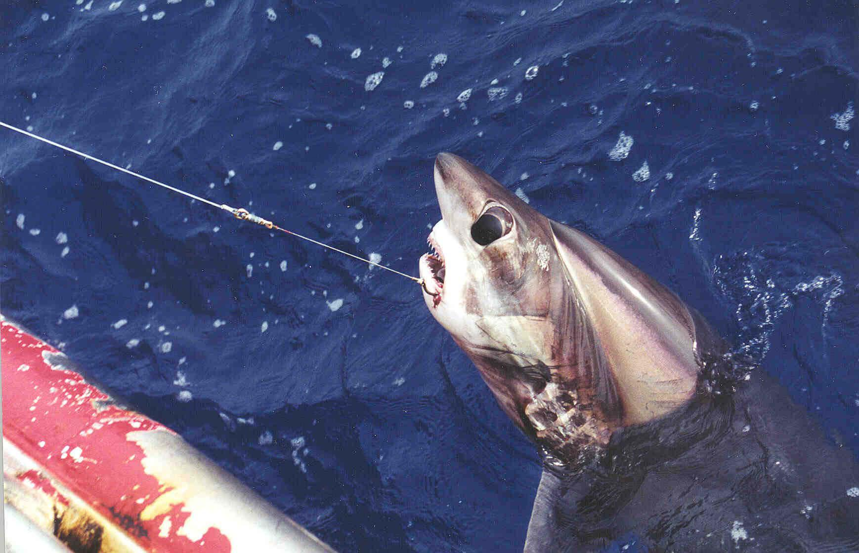 Bigeye thresher shark (Alopias superciliosus) hooked on a longline.